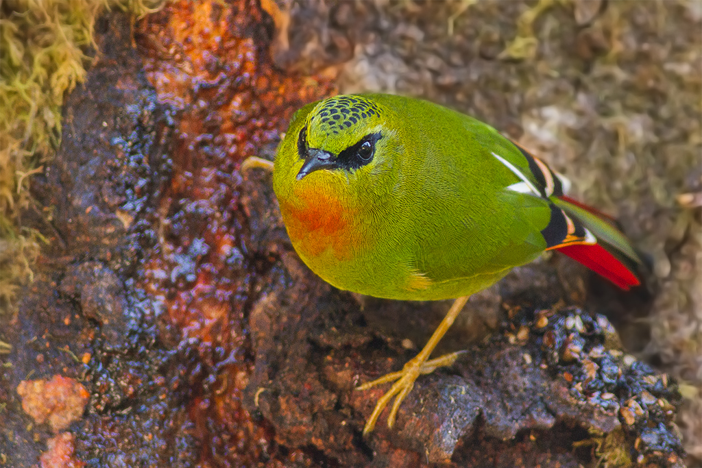 A male Fire-tailed Myzornis at Eaglenest Wildlife Sanctuary, Arunachal Pradesh, India.